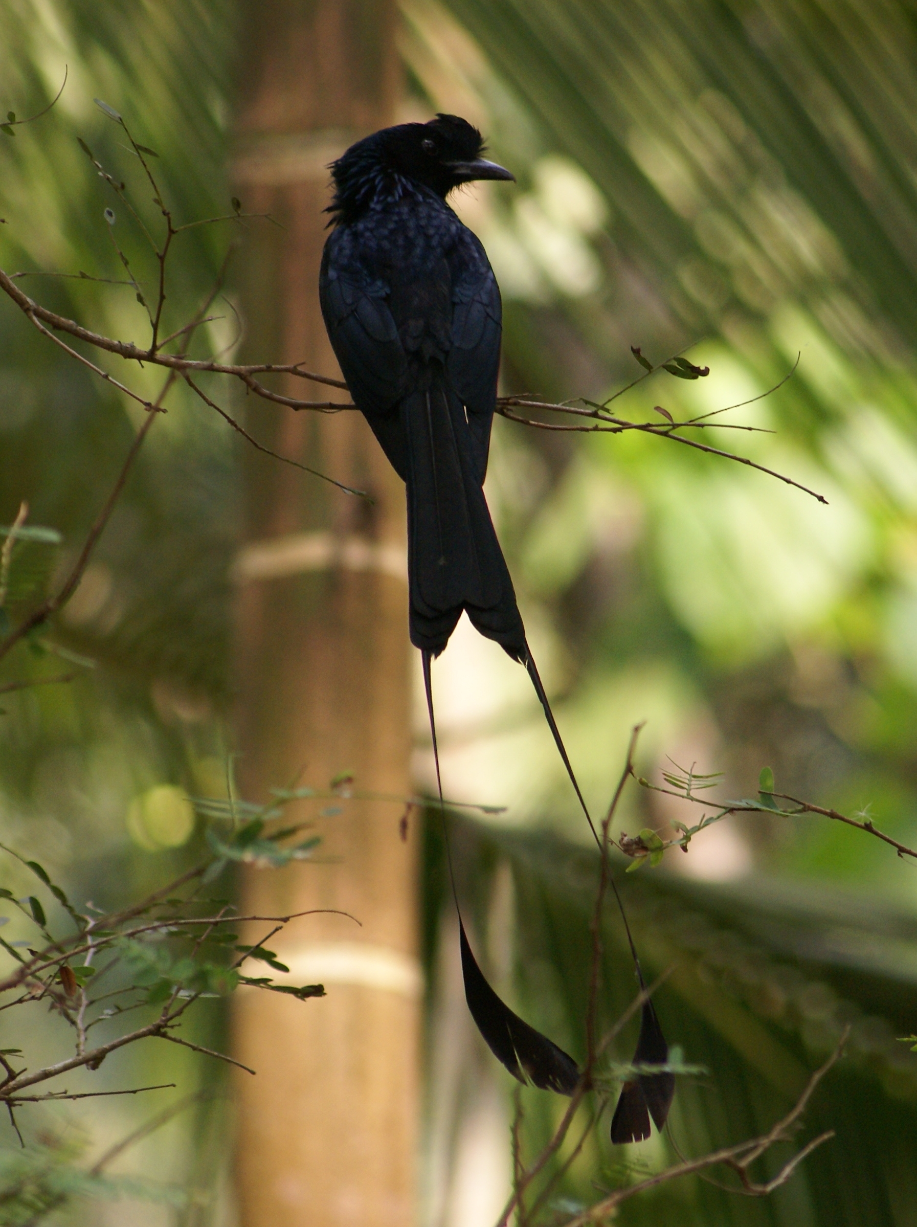 Greater Racket-tailed Drongo (Dicrurus paradiseus) in Kerala, India.